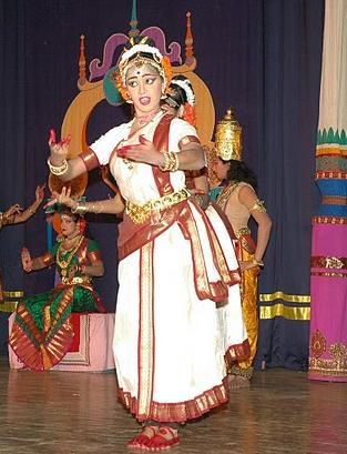 Kuchipudi Style